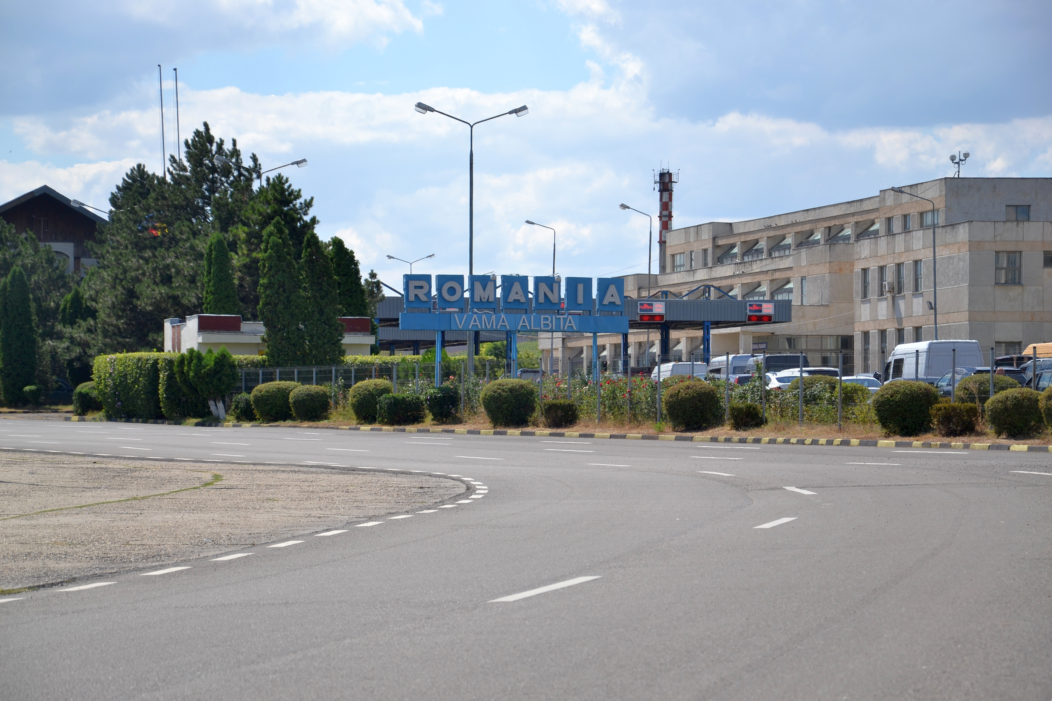 Romania-Moldova border. Albita